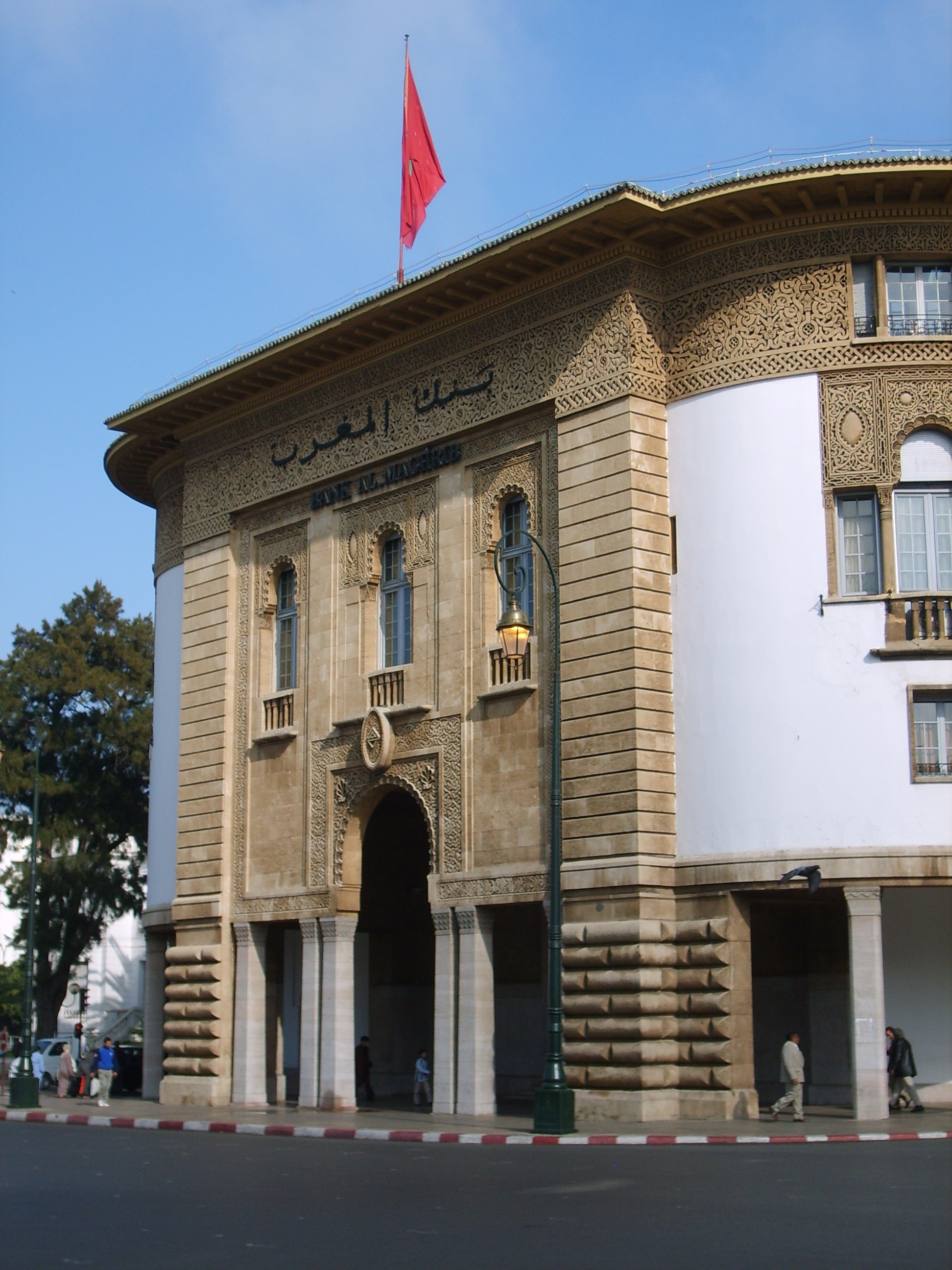 facade of Bank of Bank Al-Maghrib (the central bank of Morocco), in Rabat centre, avenue Mohammed V